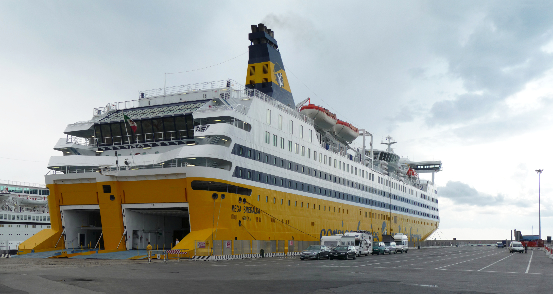 Ferry "Mega Smaralda" (Wärtsilä Helsinki Shipyard, Finland, Hull-No: 470, 1985, ex Color Festival, Silja Karneval, Svea) Corsica ferries-sardinia ferries - port of Livorno, Italy, 2008